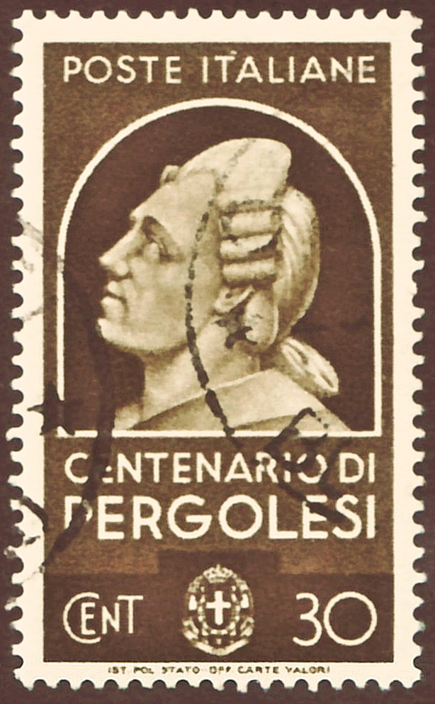 Stamp of the Kingdom of Italy; 1937; commemorative stamp of the issue "Famous Italian people"; framed portrait of Giovanni Battista Pergolesi, postmarked Stamp: Michel: No. 594; Yvert & Tellier: No. 409; Scott: No. 390 Color: sepia Watermark: Italy No. 1 (crown) Nominal value: 30 Cent. (Centesimi) Postage validity: from 25 October 1937 until 30 September 1938 Stamp picture size (printed area without below names line): 20.5 x 37,0 mm